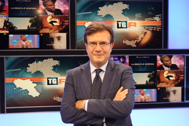 Antonello Perillo, caporedattore centrale responsabile della Tgr Rai della Campania